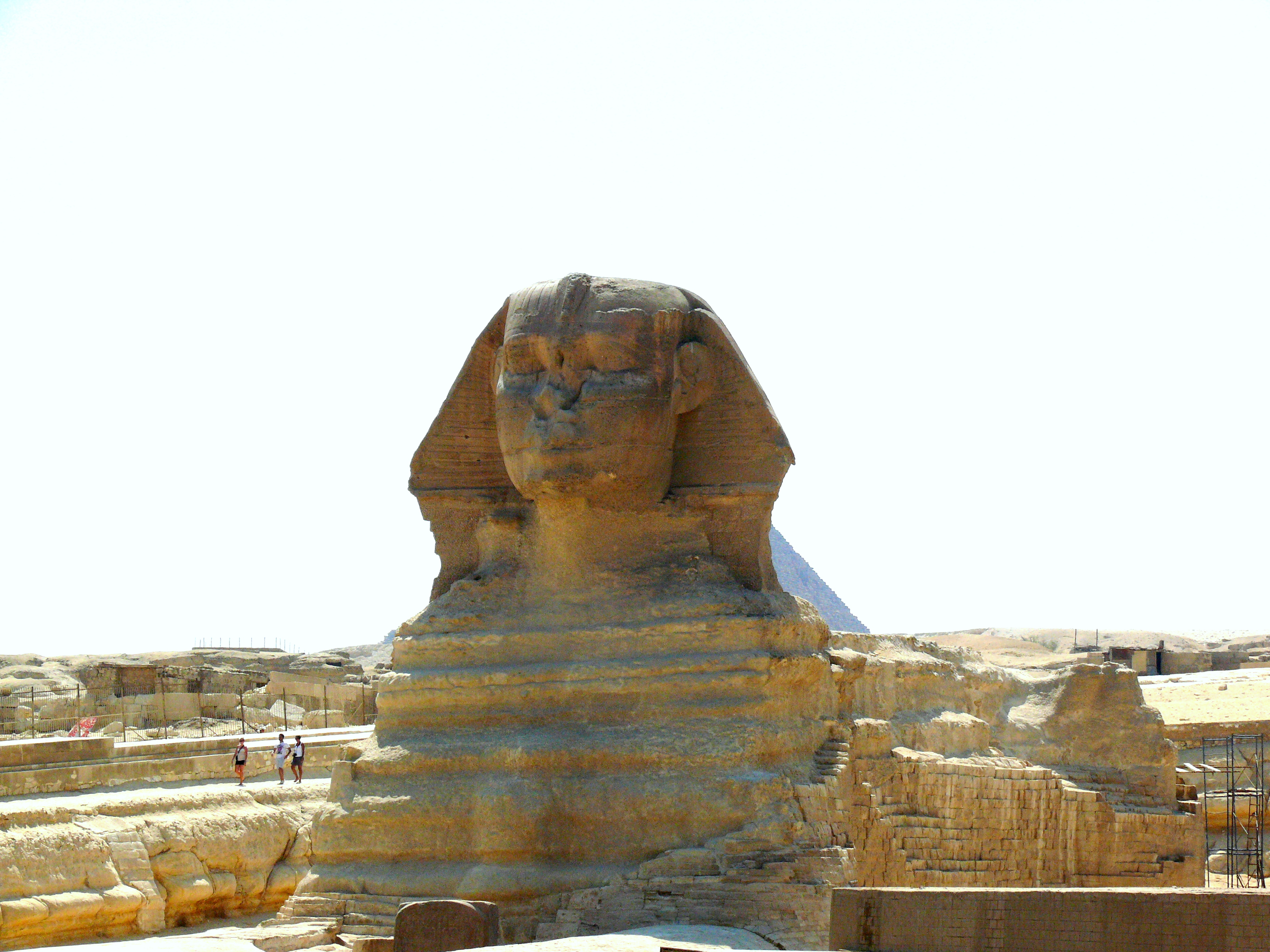 The Great Sphinx of Giza